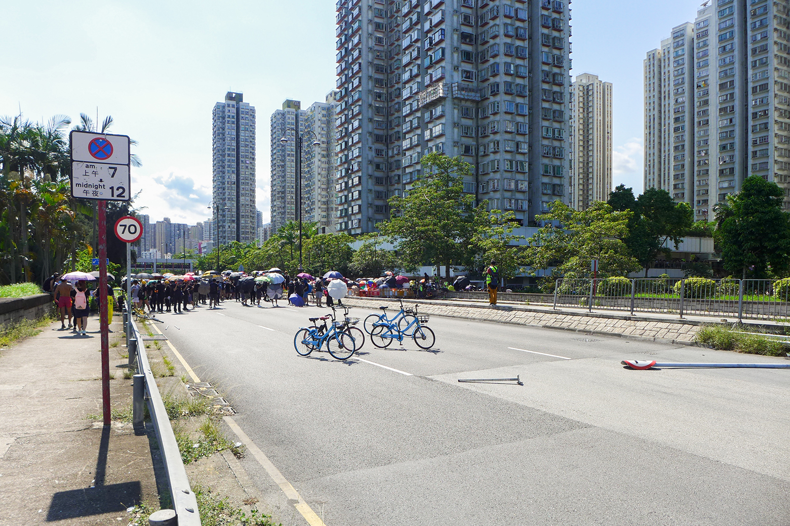 Tai Po Tai Wo Road Protesters